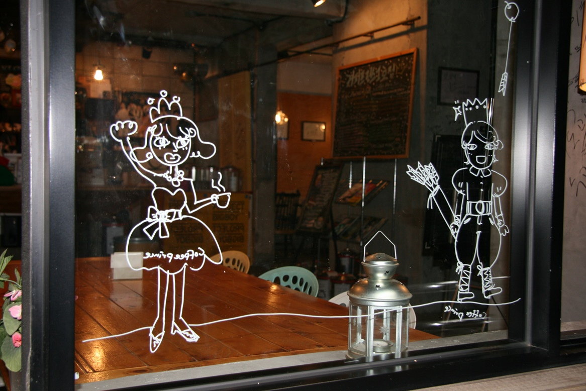 Window art of The 1st Shop of Coffee Prince, in Hongdae, Mapo-gu, Seoul in 2012. It was used as the main filming location for 2007 South Korean Munhwa Broadcasting Corporation (MBC) television drama series of the same name, that were also featured in the series